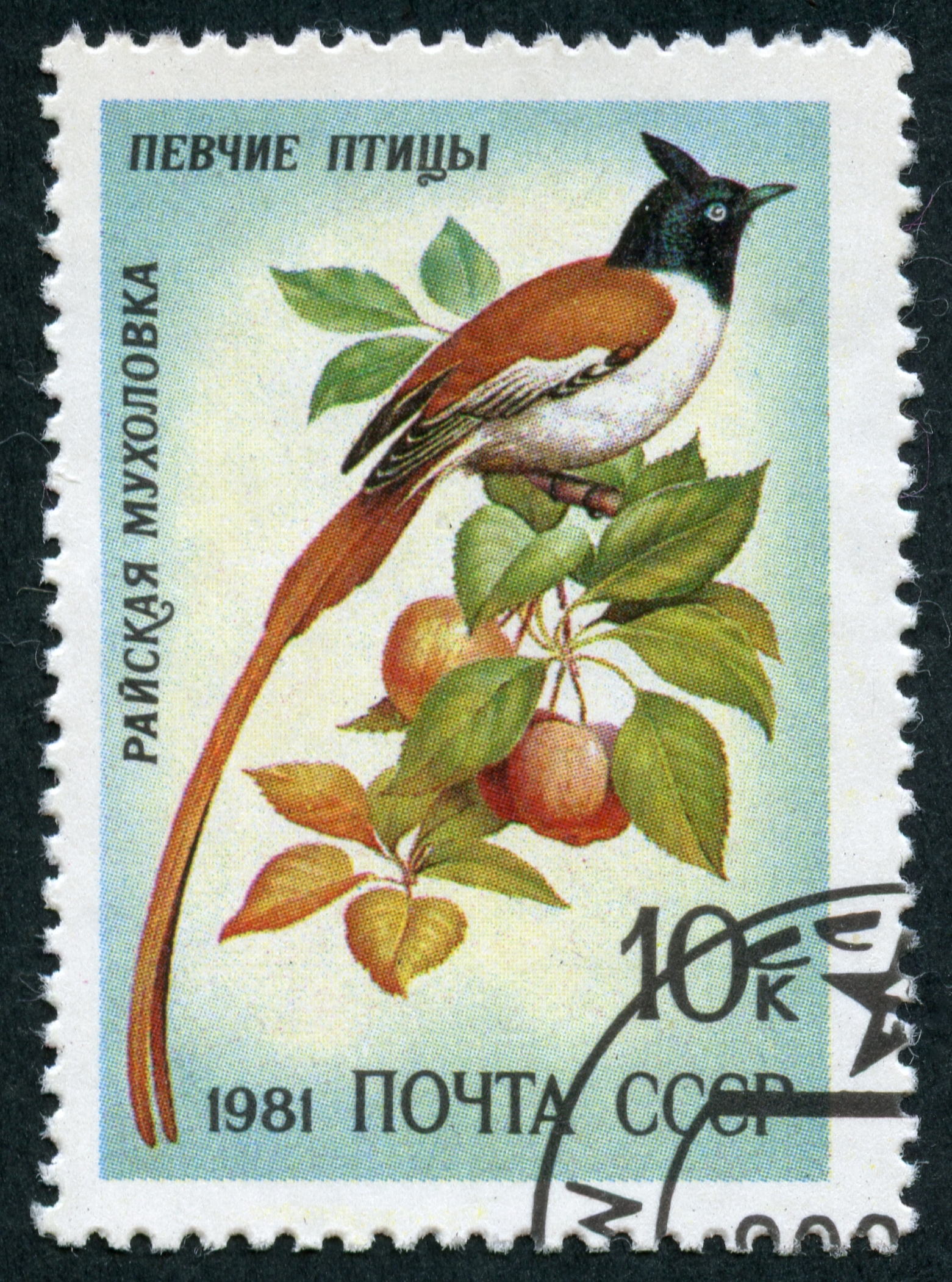 A USSR stamp